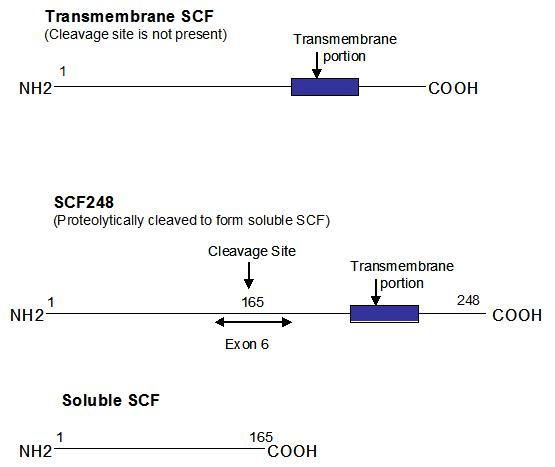 Alternative splicing of Stem cell factor (SCF) to produce transmembrane and soluble forms.